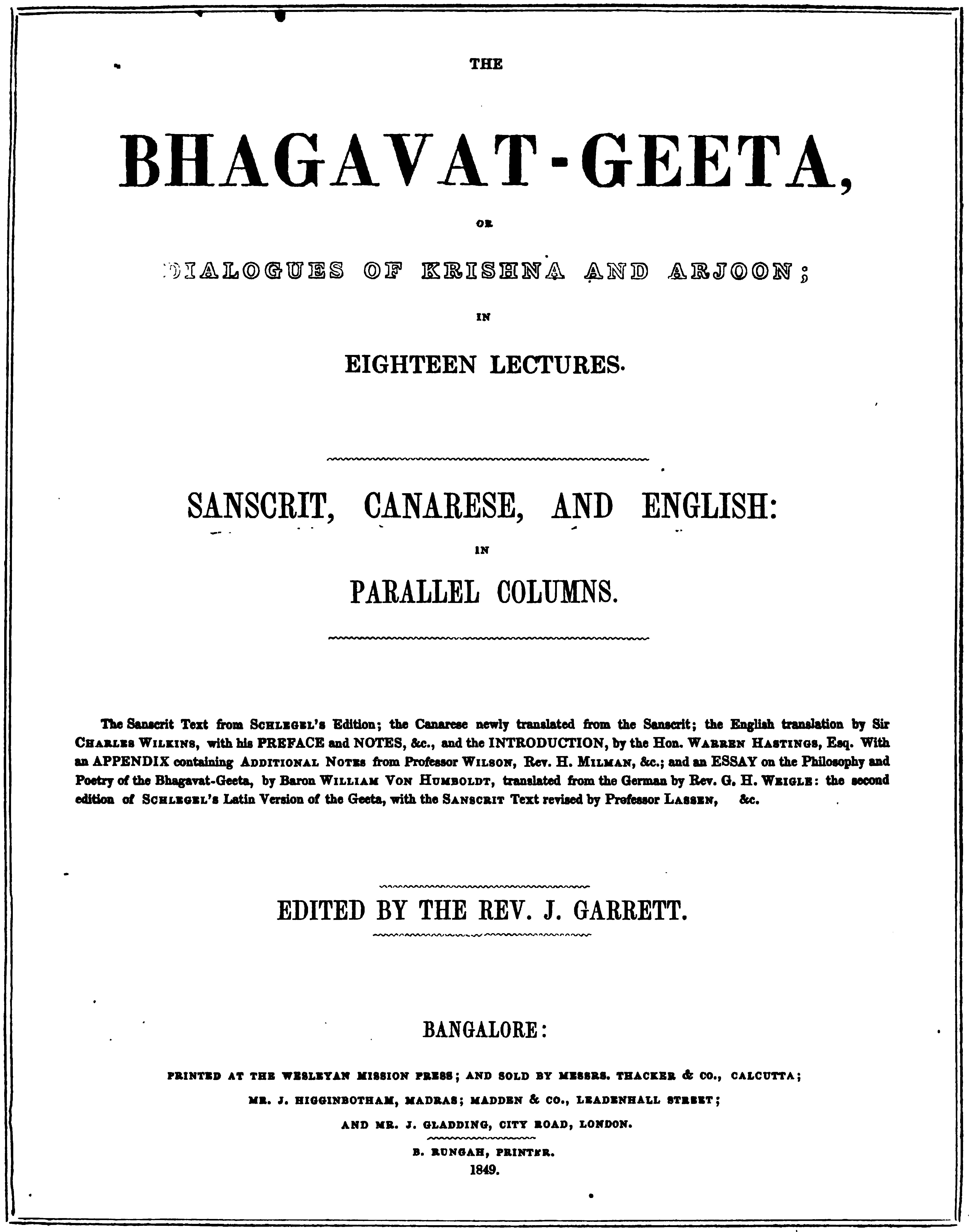 Bhagvat-Geeta, Wesleyan Mission Press, Bangalore, 1849